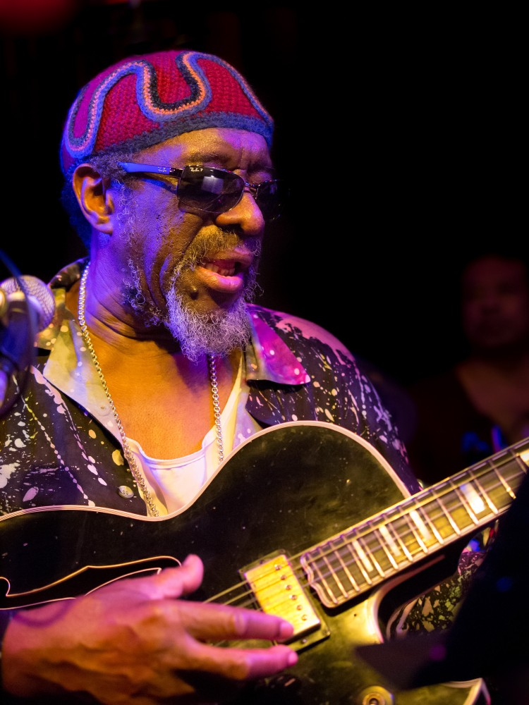 James Blood Ulmer, Guitarist and Vocalist, Jazz and Blues; Picture taken in Jazz Club Unterfahrt, Munich/Bavaria